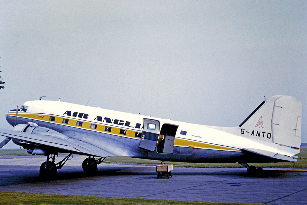 Douglas C-47B (DC-3) G-ANTD of Air Anglia at Norwich Airport in 1971